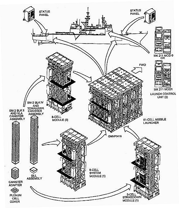 Figure 7-39.- Vertica1 Launching System Mk 41 Mod 0.